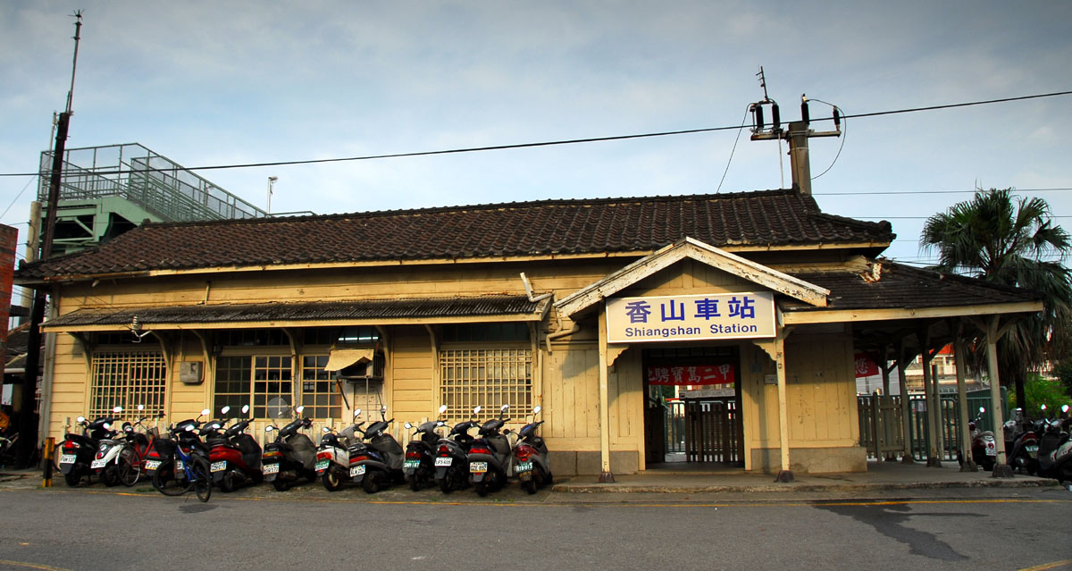 ShiangShan Station is a local train station of Taiwan's Western main rail line. It's located within the boundary of ShiangShan District, HsinChu City, hence got the name. The station structure was built in 1928 and has been appointed as a municipal heritage site.